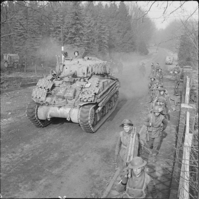 The British Army in North-west Europe 1944-45 A Sherman tank passes infantry of 43rd (Wessex) Division during the advance on Goch, 17 February 1945.